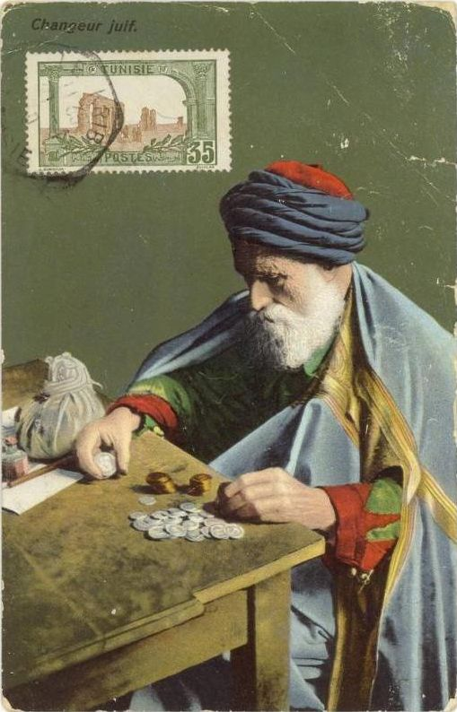 Changeur juif, avant 1910, Tunisie.